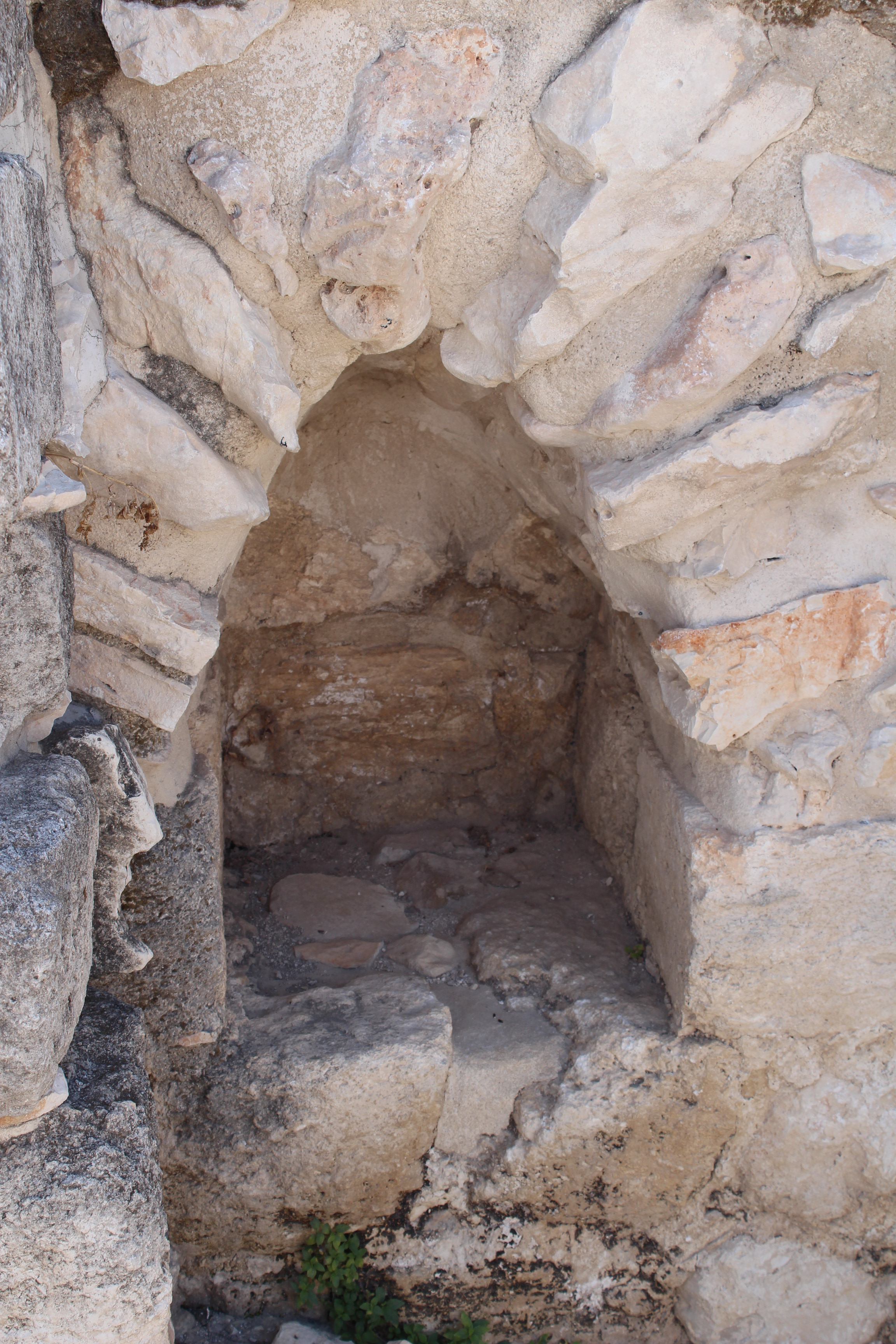 Crusader period remains - the smaller, northern tower,Tel Yokneam The site's ID in Wiki Loves Monuments photographic competition is 16-0240-100